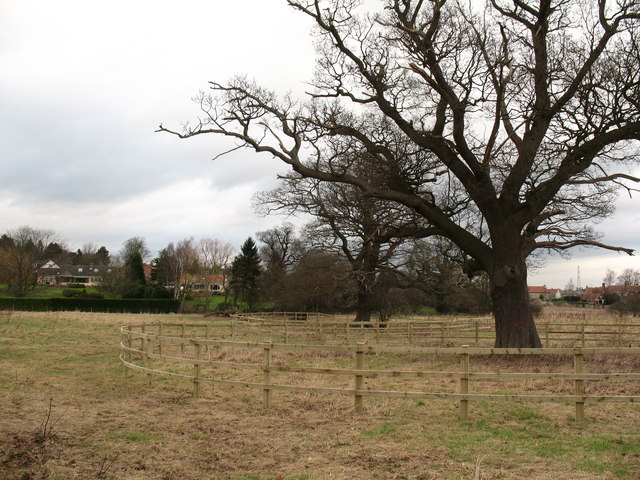 Jacob Smith Park, Scriven This area of parkland was opened to the public for the first time at the start of 2008, having passed into the control of Harrogate Borough Council. The land was formerly part of the Scriven estate, but there are plans to make it into a public park. The parkland is dotted with old oak trees, some of which are in a poor state and have been fenced off for public safety.